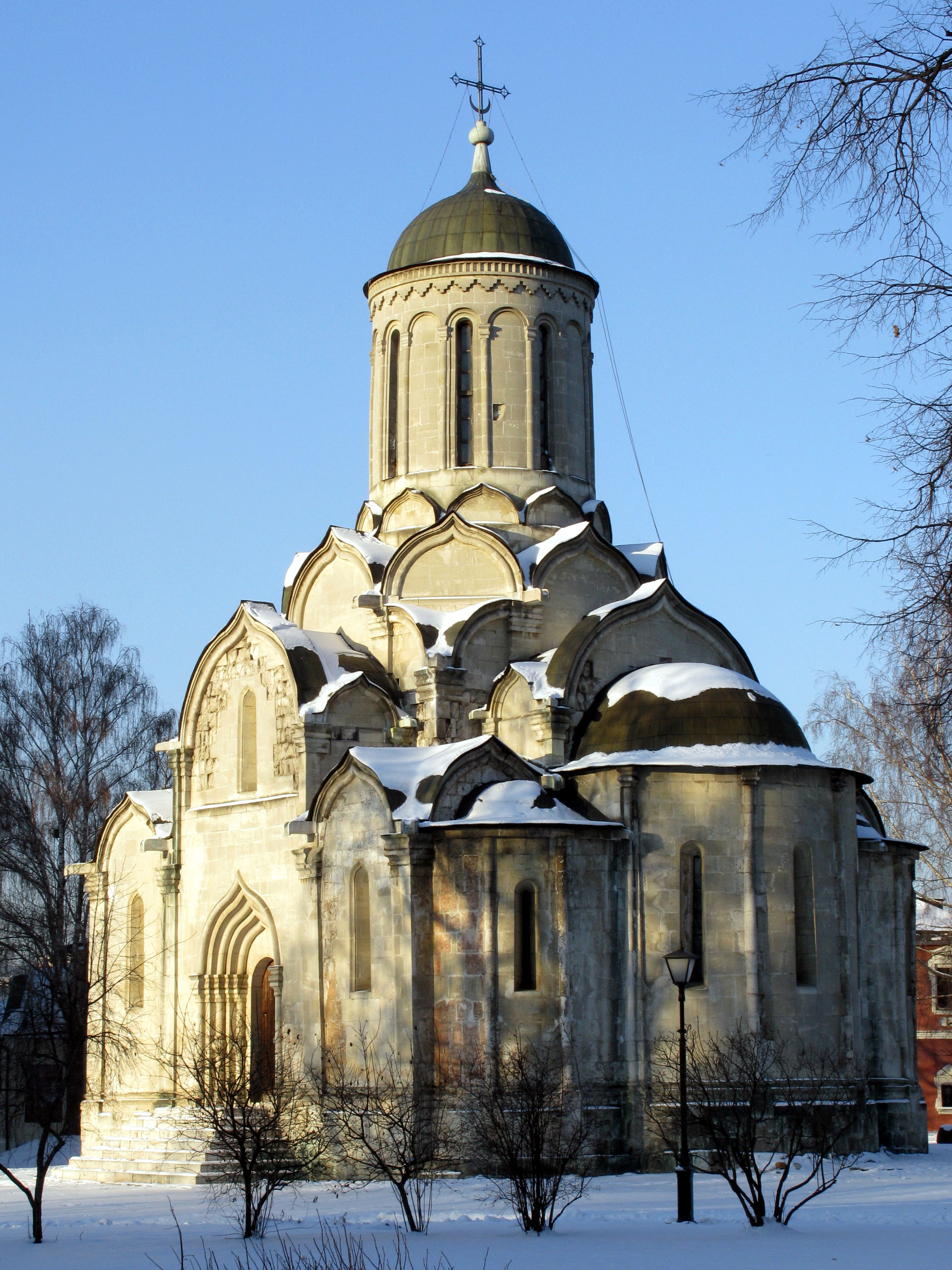 Cathedral of the Holy Mandylion (Andronikov Monastery)